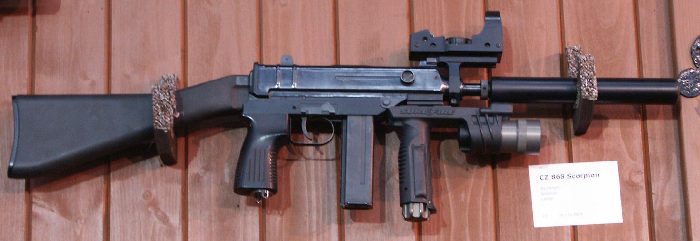 CZ868 Skorpion - a development of vz.61 Skorpion